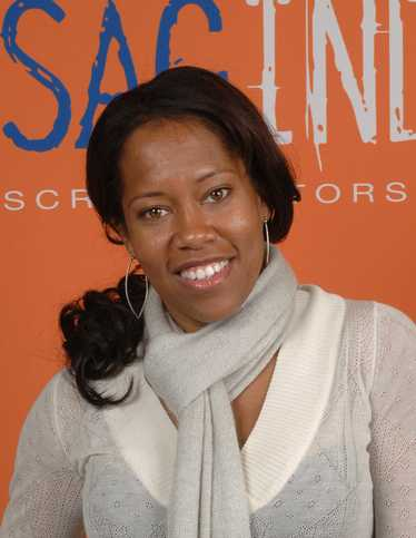 Regina King Cropped.